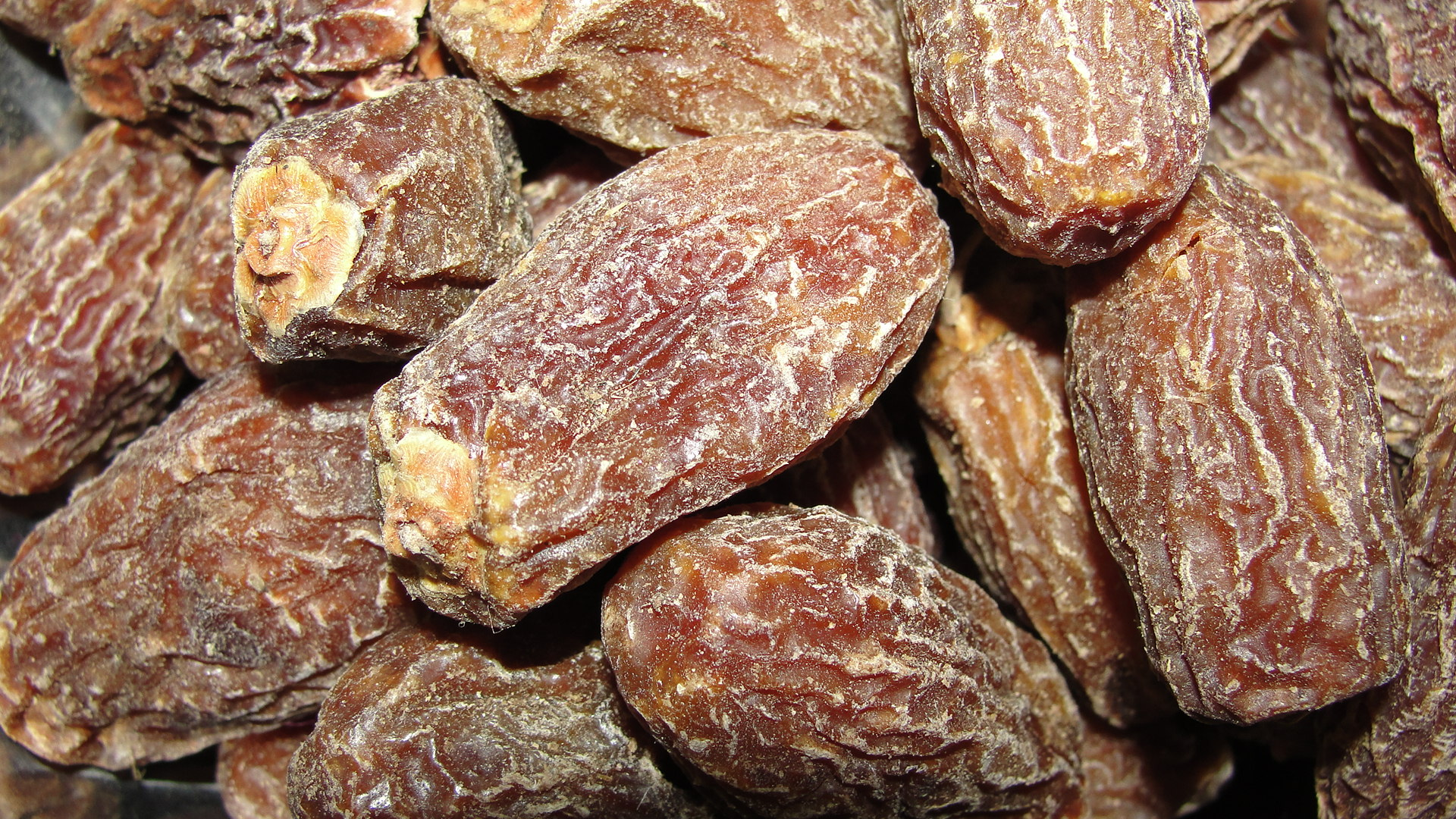 A closeup of Dates